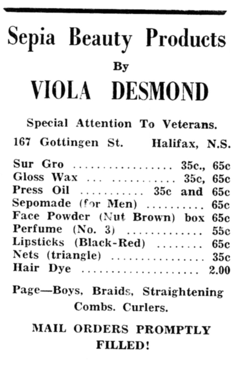 Viola Desmond